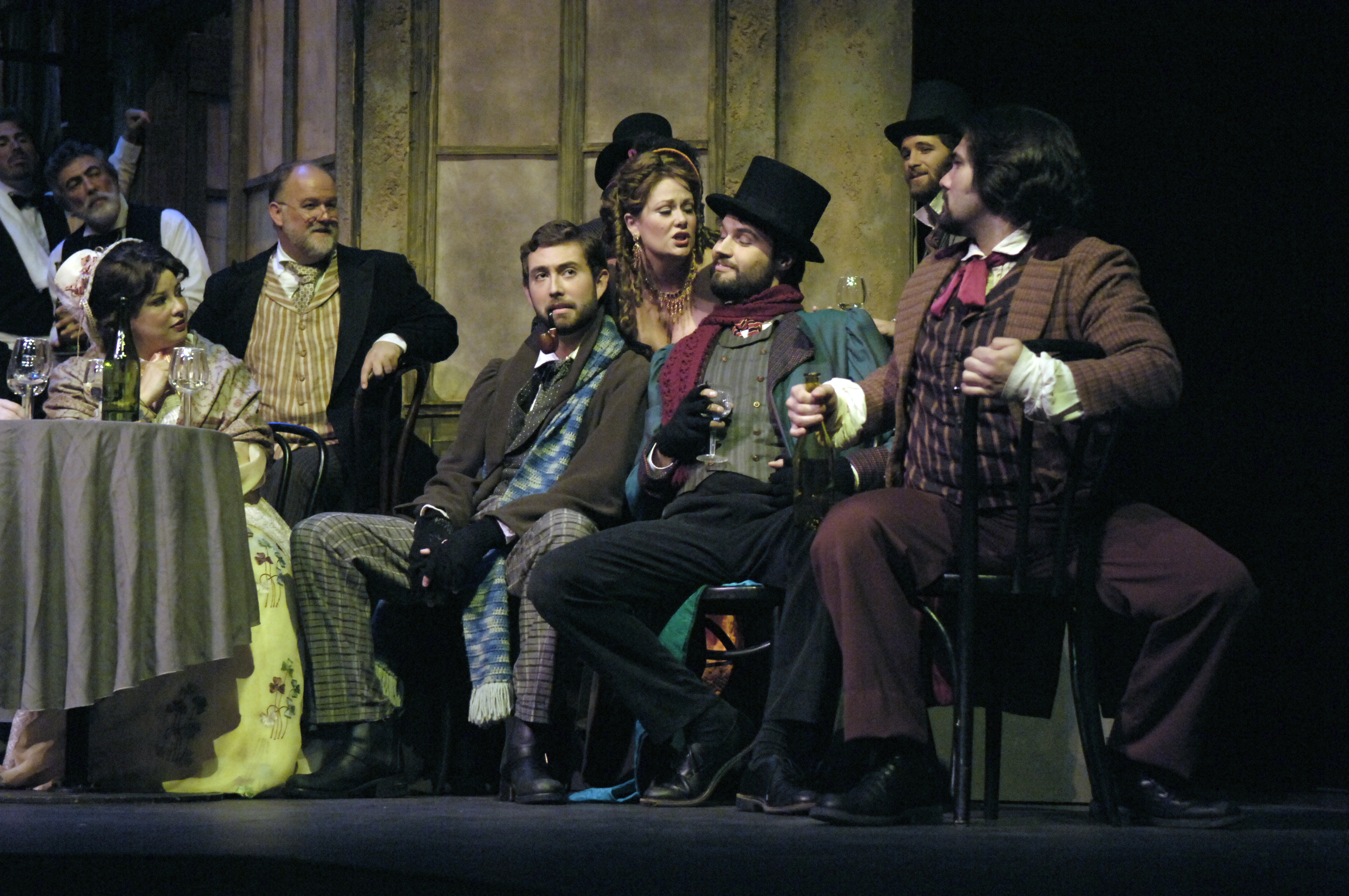 Performance still Of La Boheme Performed by DuPage Opera Theatre